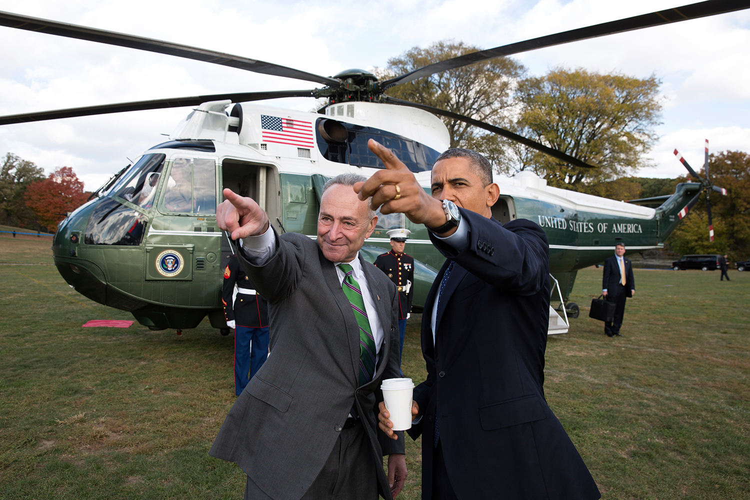 President Barack Obama is met by Sen. Chuck Schumer, D-N.Y., upon arrival aboard Marine One at the Prospect Park landing zone in New York, N.Y., Oct. 25, 2013. A military aide carrying the "nuclear football" stands by the helicopter at the right. (Official White House Photo by Pete Souza)